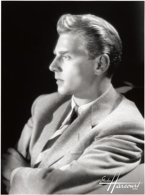 Studio photo